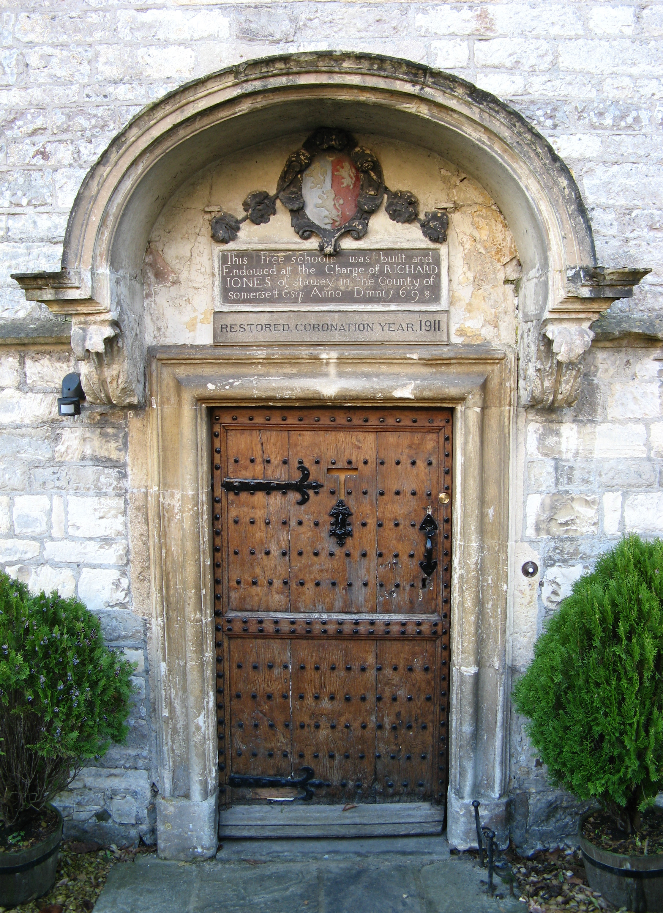 Door of the school, closed 1972, Newton St Loe, Bath and North East Somerset.